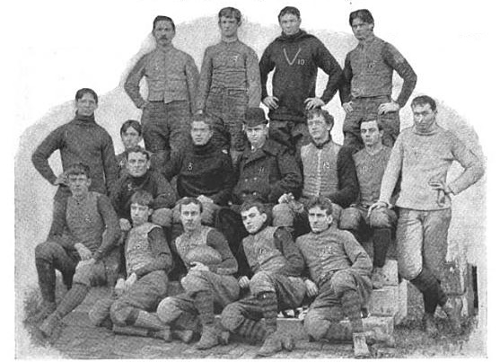 1893 Vanderbilt Commodores football team. 1) Bucker 2) Fitzgerald 3) Morris 4) Dortch 5) Hugh 6) Taylor 7) Connell 8) Hanner 9) Keller (capt) 10) Burch 11) Bland (Mgr.) 12) Malone 13) Hildebrand 14) Goodson 15) Kittrell 16) Baskerville 17) Elliott